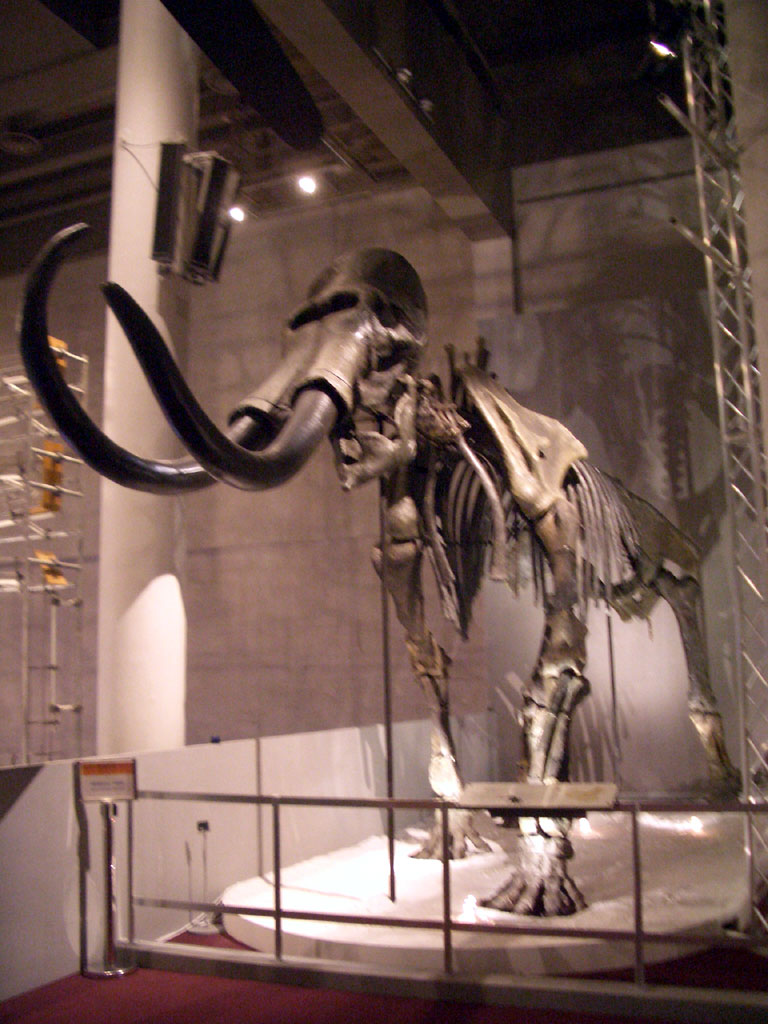 Skeleton of Mammuthus sungari displayed in Hong Kong Science Museum